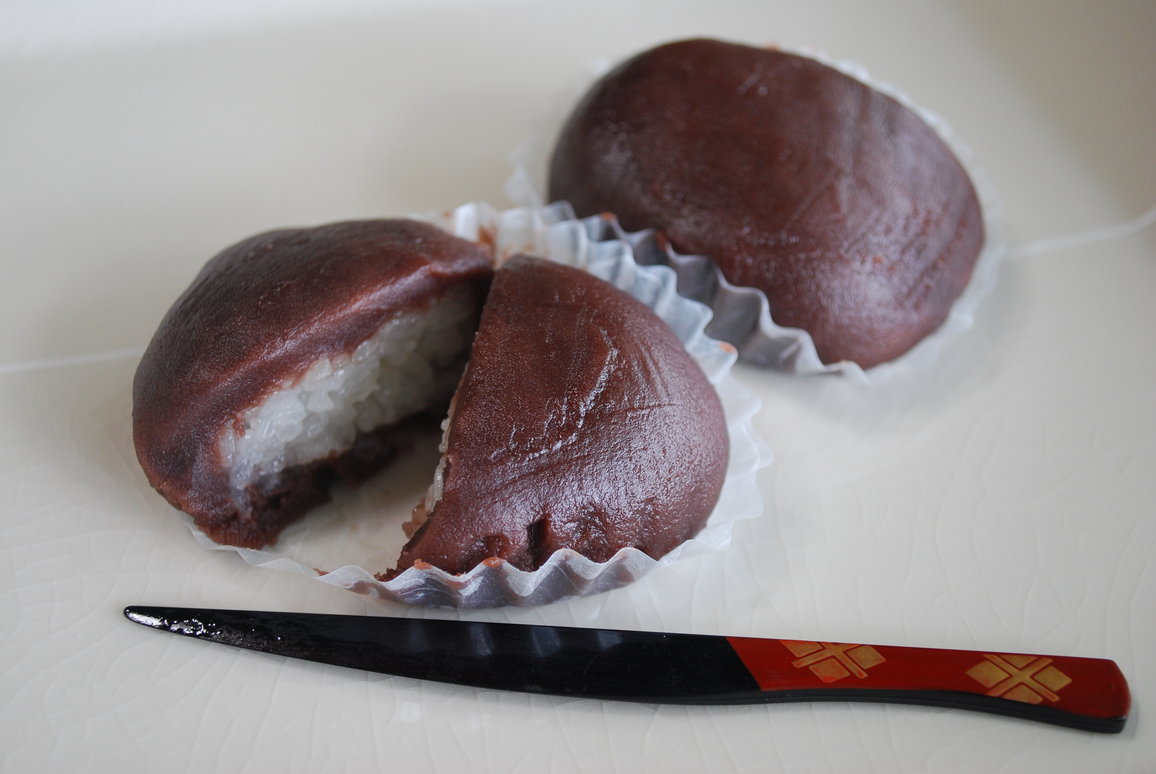 Botamochi, Ohagi, Katori-city, Japan. Rice dumpling covered with red bean paste. I often eat this sweet rice cake during the weeks of the spring and the autumn equinoxes. I call it "Botamochi" in spring and "Ohagi" in autumn.